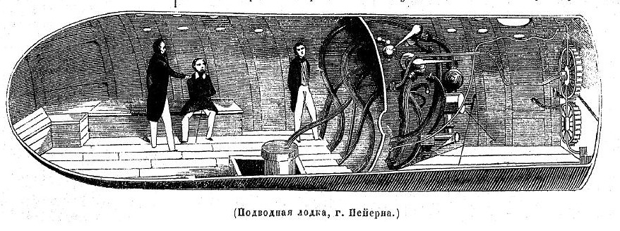 Illustratsiya Magazine. 1846. Submarine designed by Prosper Antoine Payerne (1806-1886).